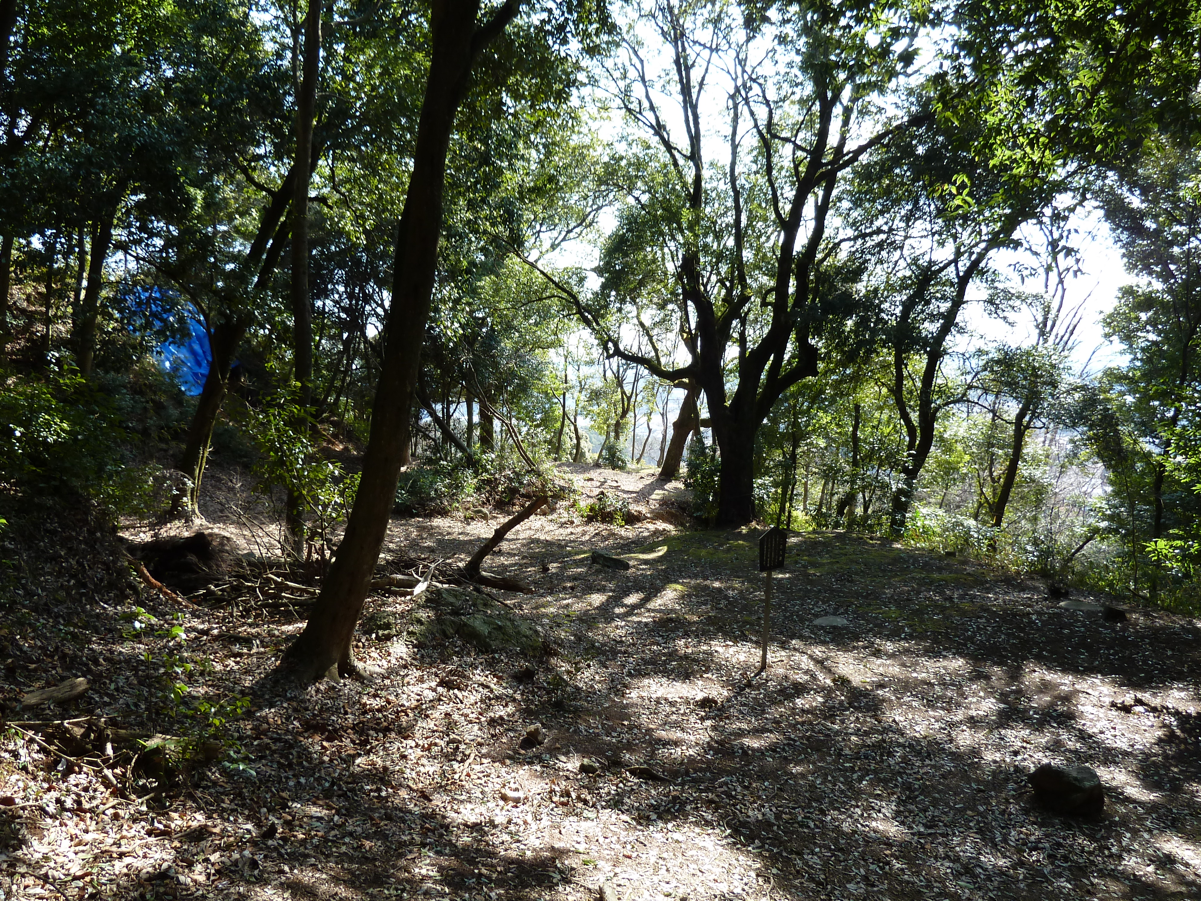 二の丸